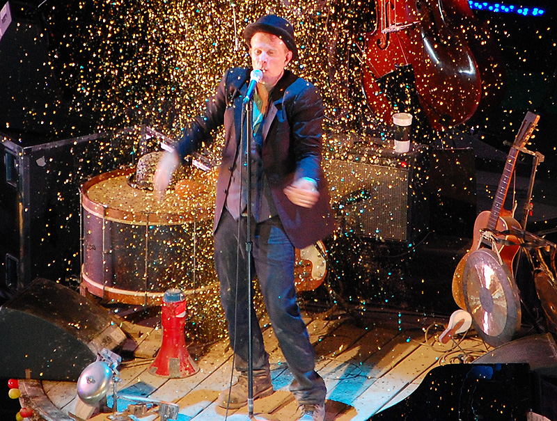 Cropped version of Tom_Waits_Praha_2008.jpg.